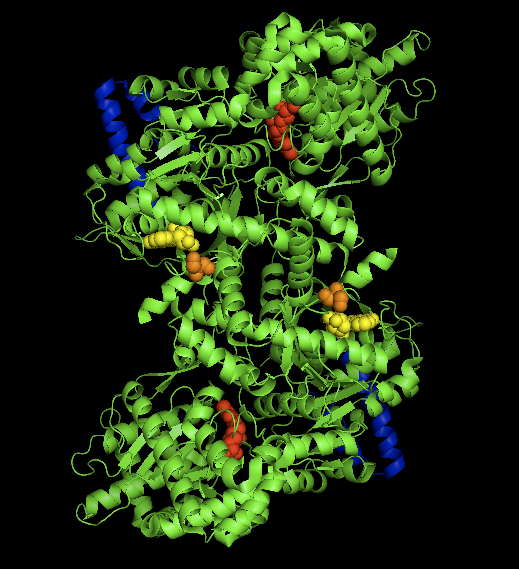 Glycogen Phosphorylase Dimer with Glycogen Binding Site, AMP Allosteric Site, Ser14, and Catalytic Site Labeled